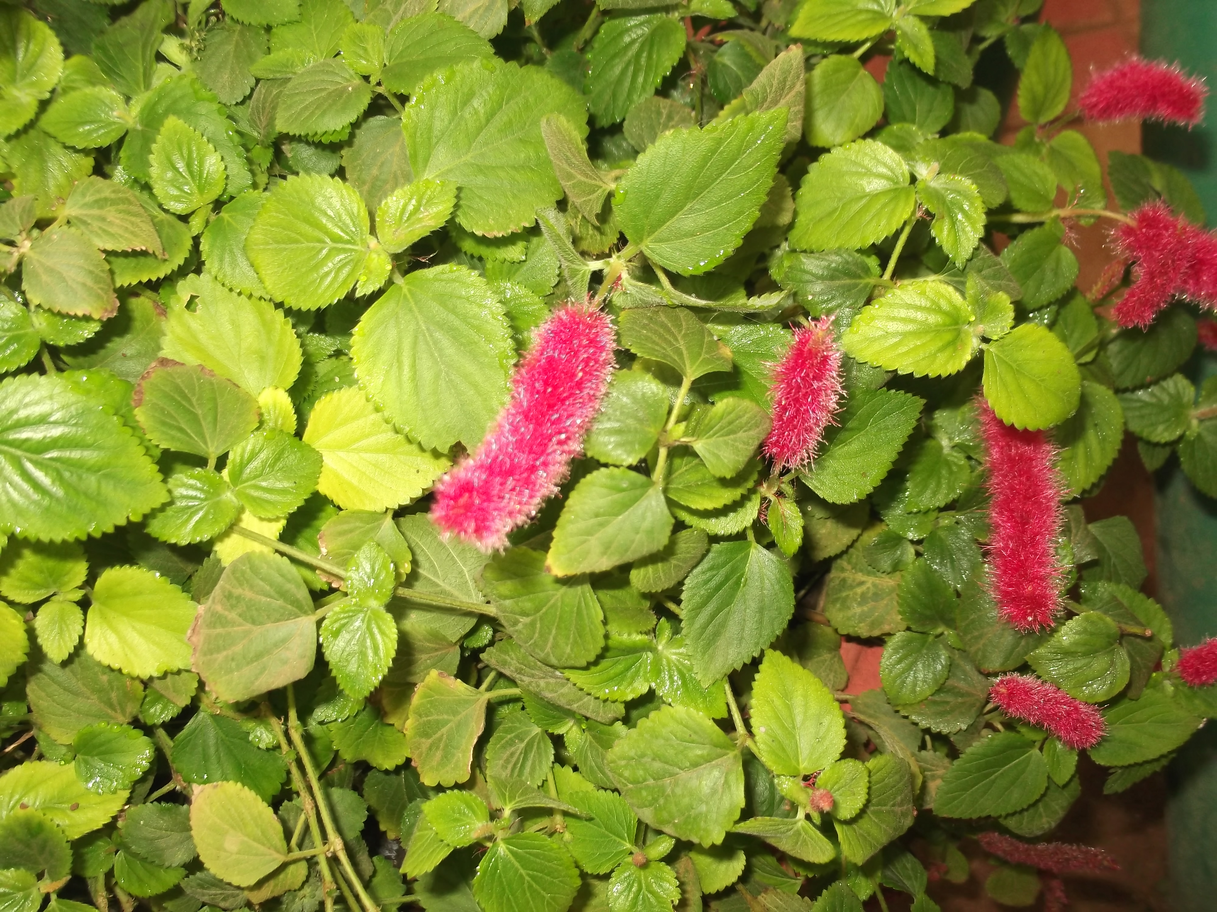 Trailing plant,bright red flowers.